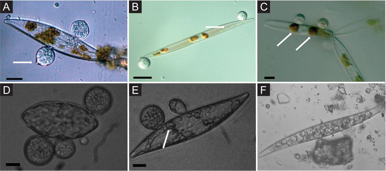 Chytrid parasites of marine diatoms. (A) Chytrid sporangia on Pleurosigma sp. The white arrow indicates the operculate discharge pore. (B) Rhizoids (white arrow) extending into diatom host. (C) Chlorophyll aggregates localized to infection sites (white arrows). (D and E) Single hosts bearing multiple zoosporangia at different stages of development. The white arrow in panel E highlights branching rhizoids. (F) Endobiotic chytrid-like sporangia within diatom frustule. Bars = 10 μm. For more details see: Hassett BT, Gradinger R (2016) "Chytrids dominate arctic marine fungal communities". Environ Microbiol, 18(6):2001–2009.